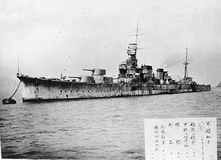 Imperial Japanese Navy's heavy cruiser Kako in April 1926 before completion